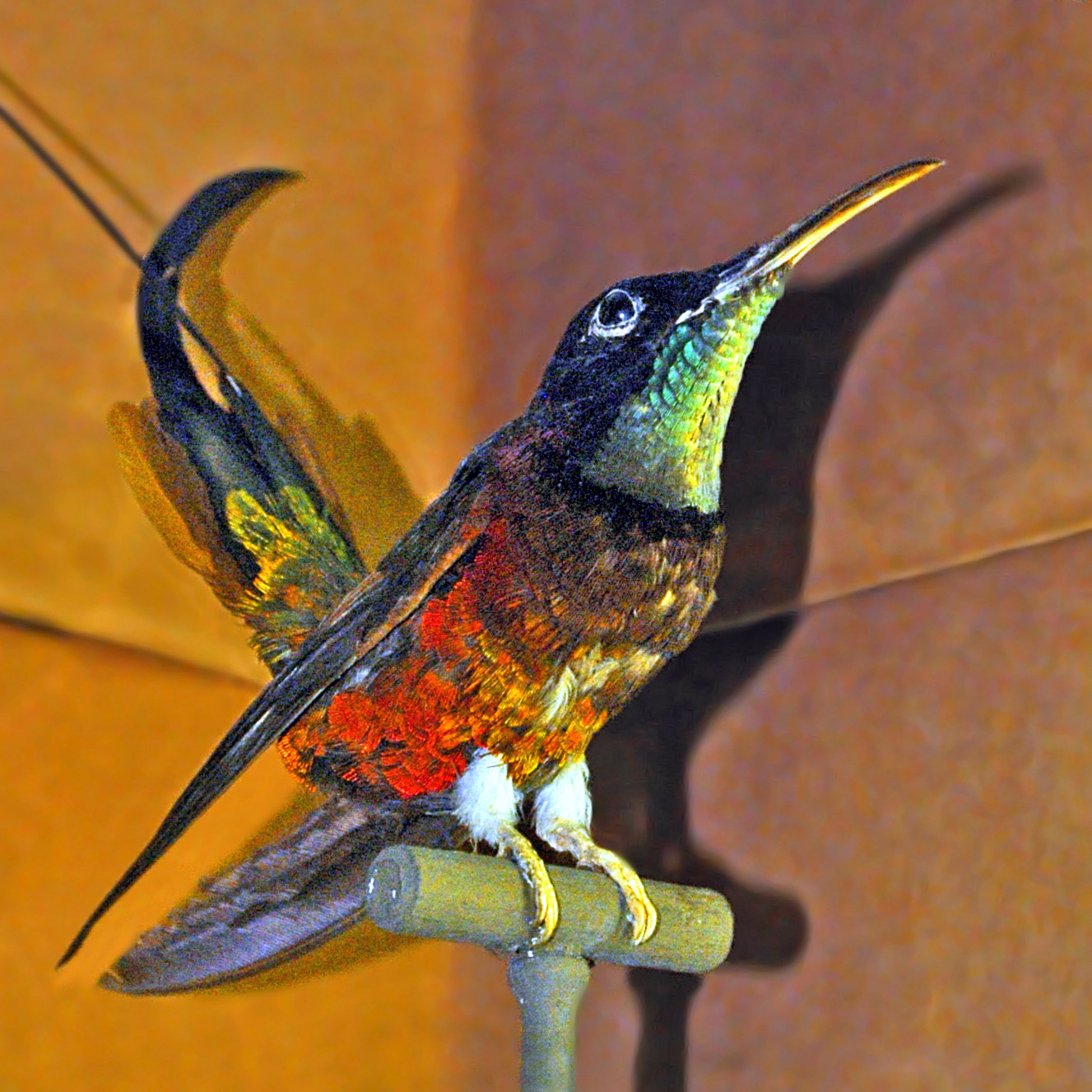 Topaza pella on display at the Museo Civico Craveri di Scienze Naturali in Bra